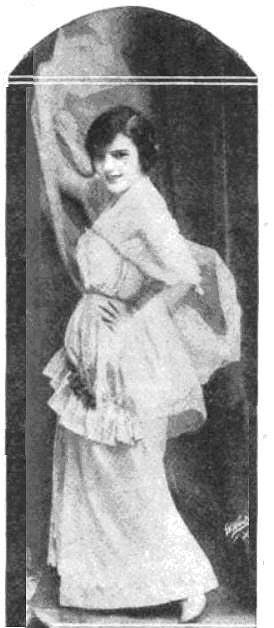 Marion Sunshine from The Green Book Magazine (1914).